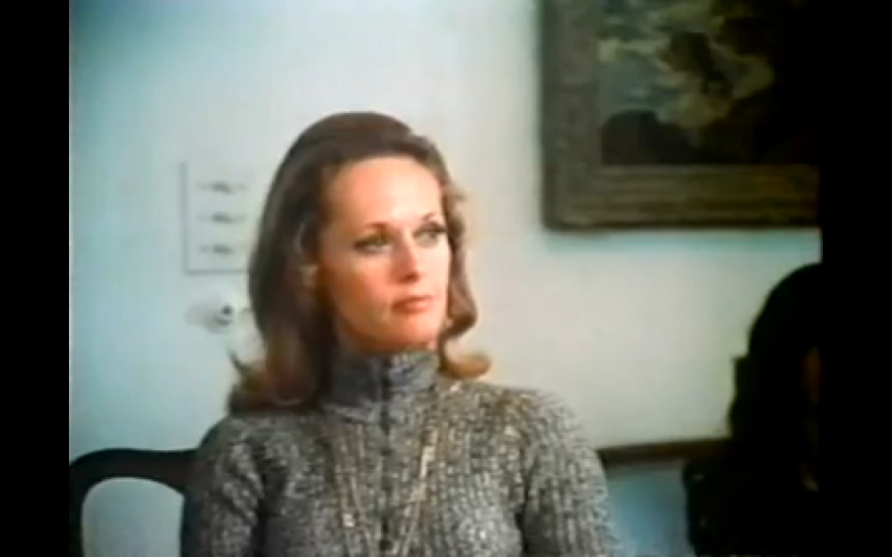 Tippi Hedren in Ted Post's The Harrad Experiment (1973) trailer.